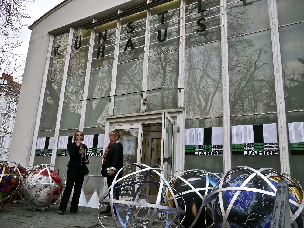 Künstlerhaus Graz, Rolling Stars and Planets